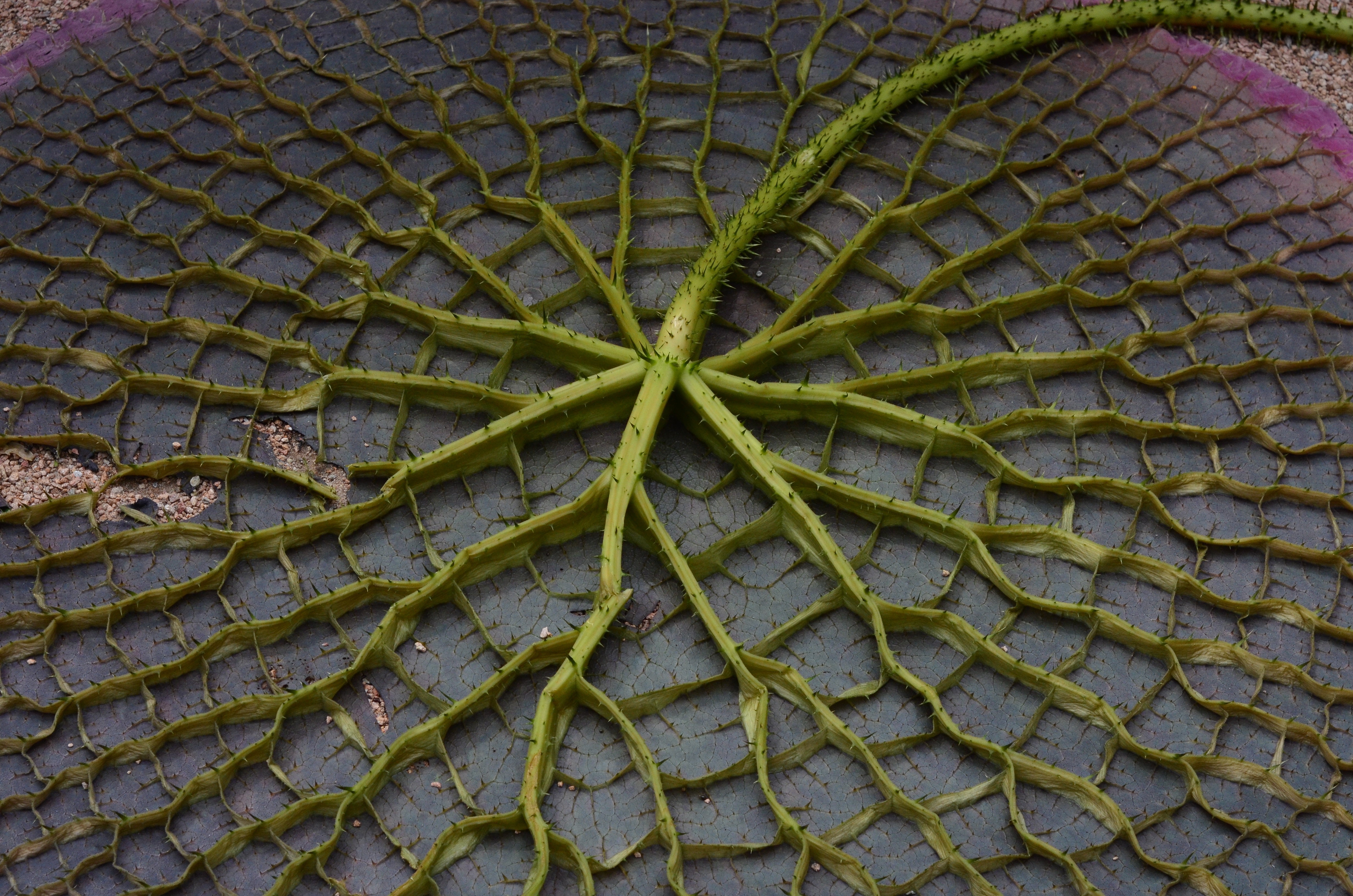 Underside of the leaf of the Santa Cruz water lily (Victoria cruziana) showing the skeletal-like gill and spikes that protect the plant from fish. Picture was taken in the botanical garden from Villa Taranto in Verbania, Italy.